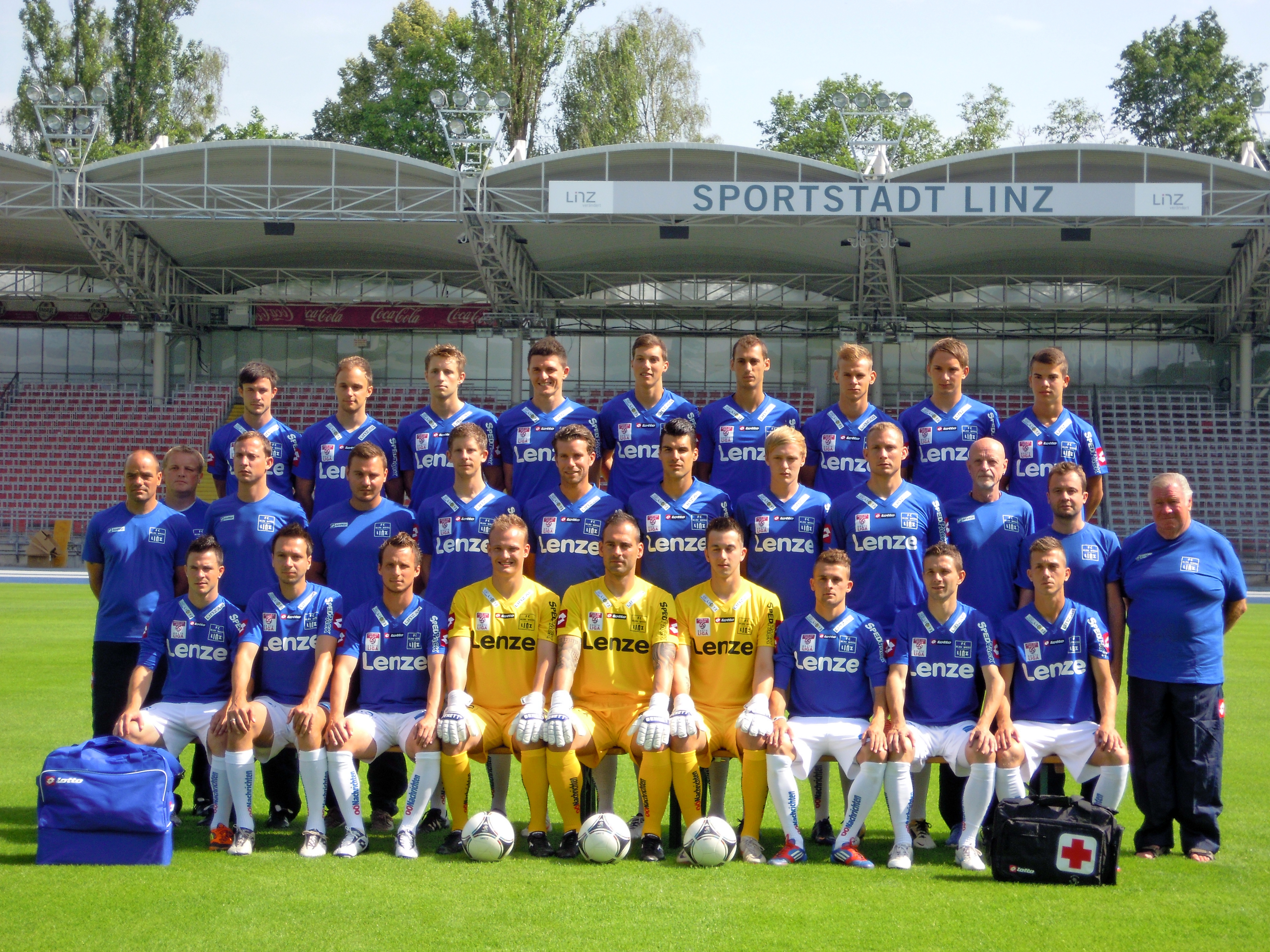 Team of Austrian "First League"-football club FC Blau-Weiss Linz for 2012-13 season, photographed at the “Linzer Stadion Auf der Gugl”, the playing venue for the championship matches of the first squad